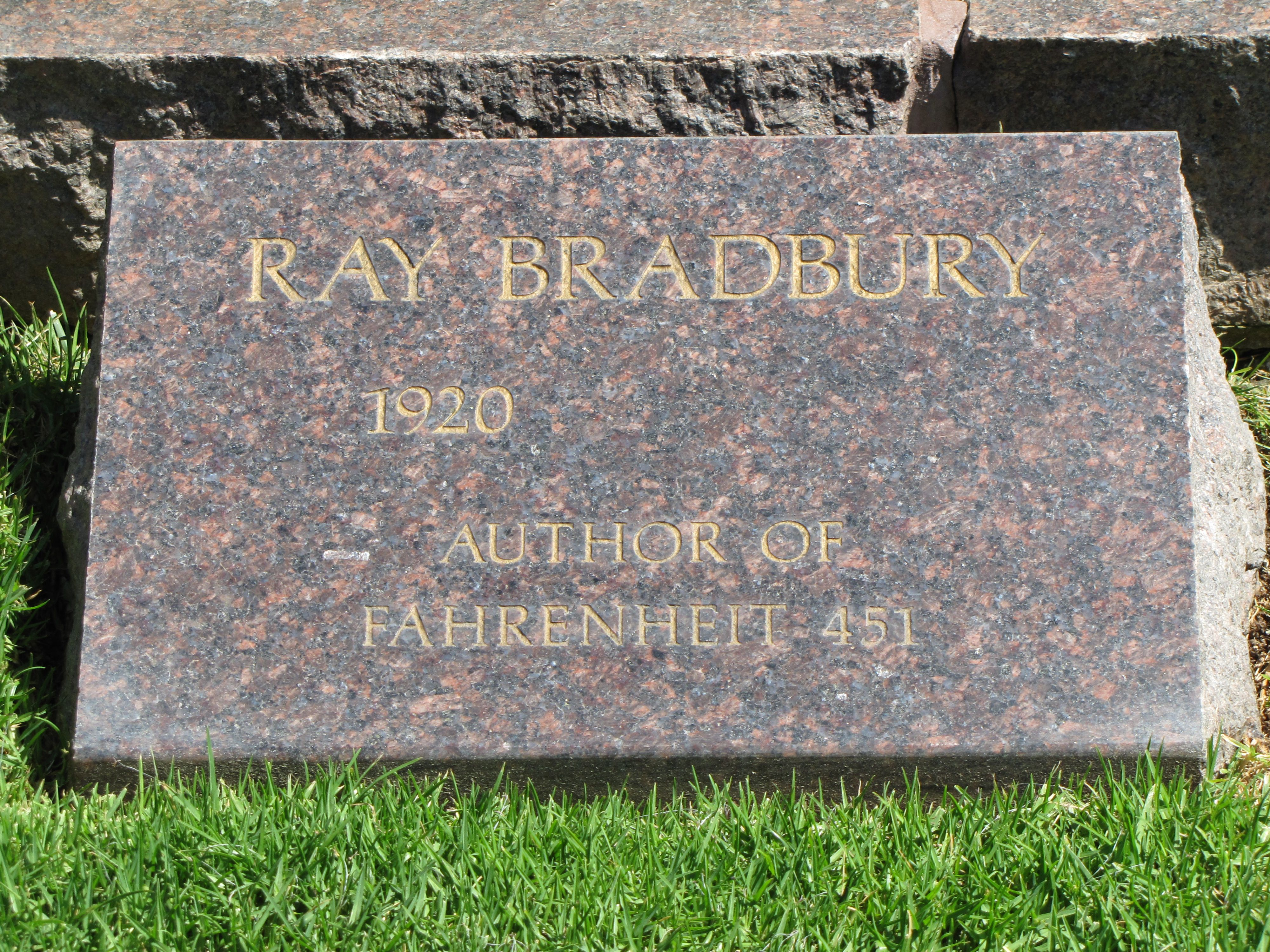 Headstone of Ray Bradbury at Westwood Village Memorial Park Cemetery, Los Angeles, CA, USA As Bradbury was still alive at that time, the stone marked his designated burial place. Bradbury died on June 5, 2012.